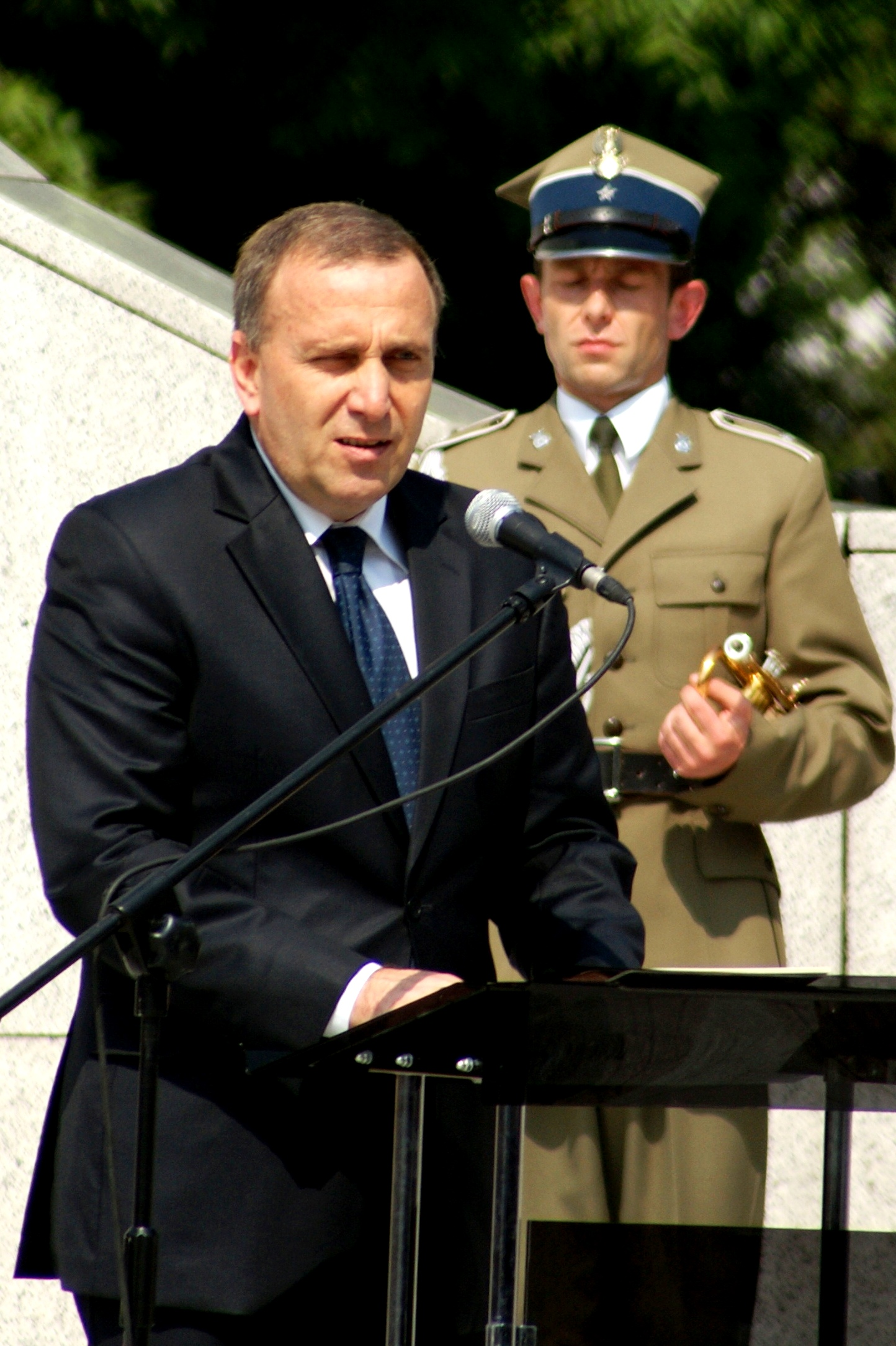 66th Anniversary of the Warsaw Uprising